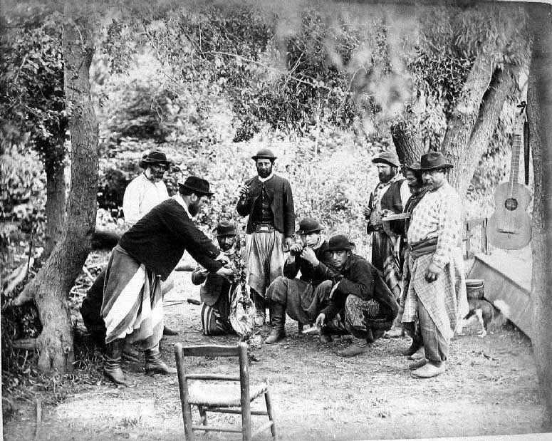 A group of Argentine gauchos with their typical dressings.